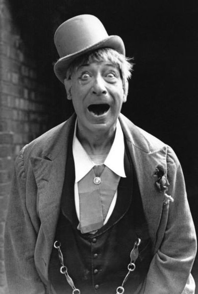 A pre-1942 photo of the Cockney music hall comedian and composer Harry Champion.